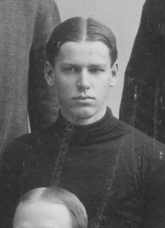 Ice hockey player Alfred Winsor of the ice hockey team of Harvard University in 1901.